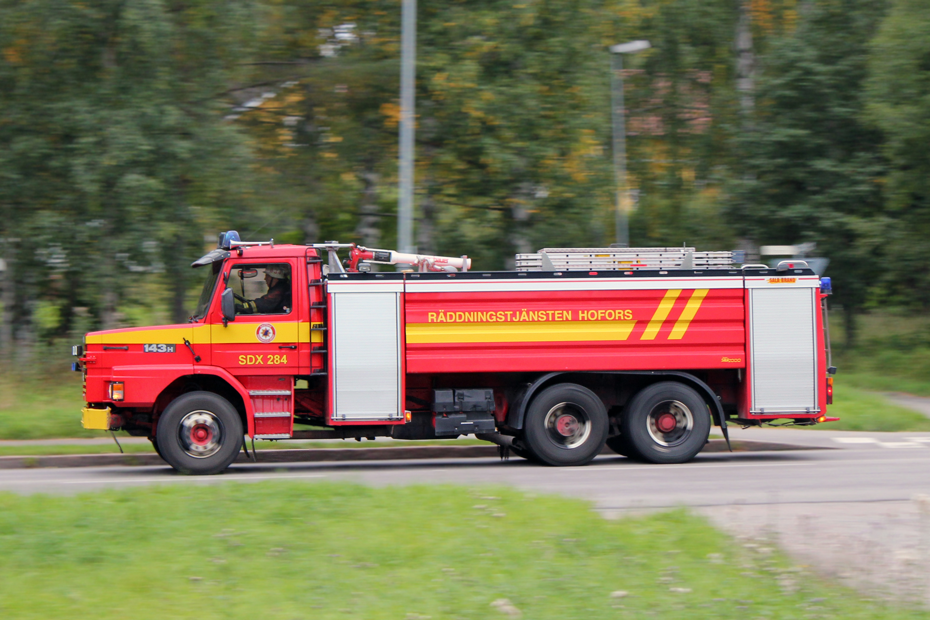 Fire engine on discharge in Hofors, Gävleborg County, Sweden.